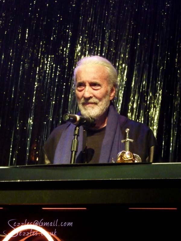 English actor and singer Sir Christopher Lee receives the "Spirit of Metal" Award at the 2010 Metal Hammer Golden Gods Awards ceremony for his Album "Charlemagne: By the Sword and the Cross".